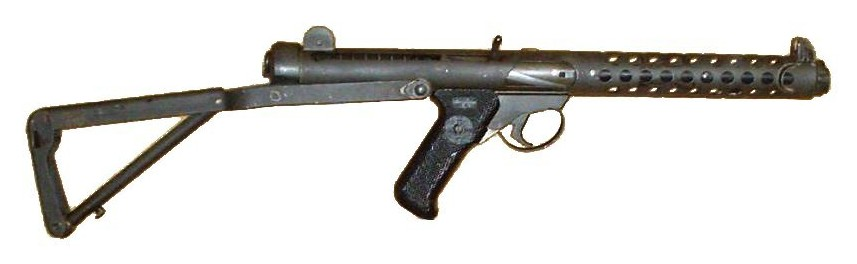 Sterling submachine gun